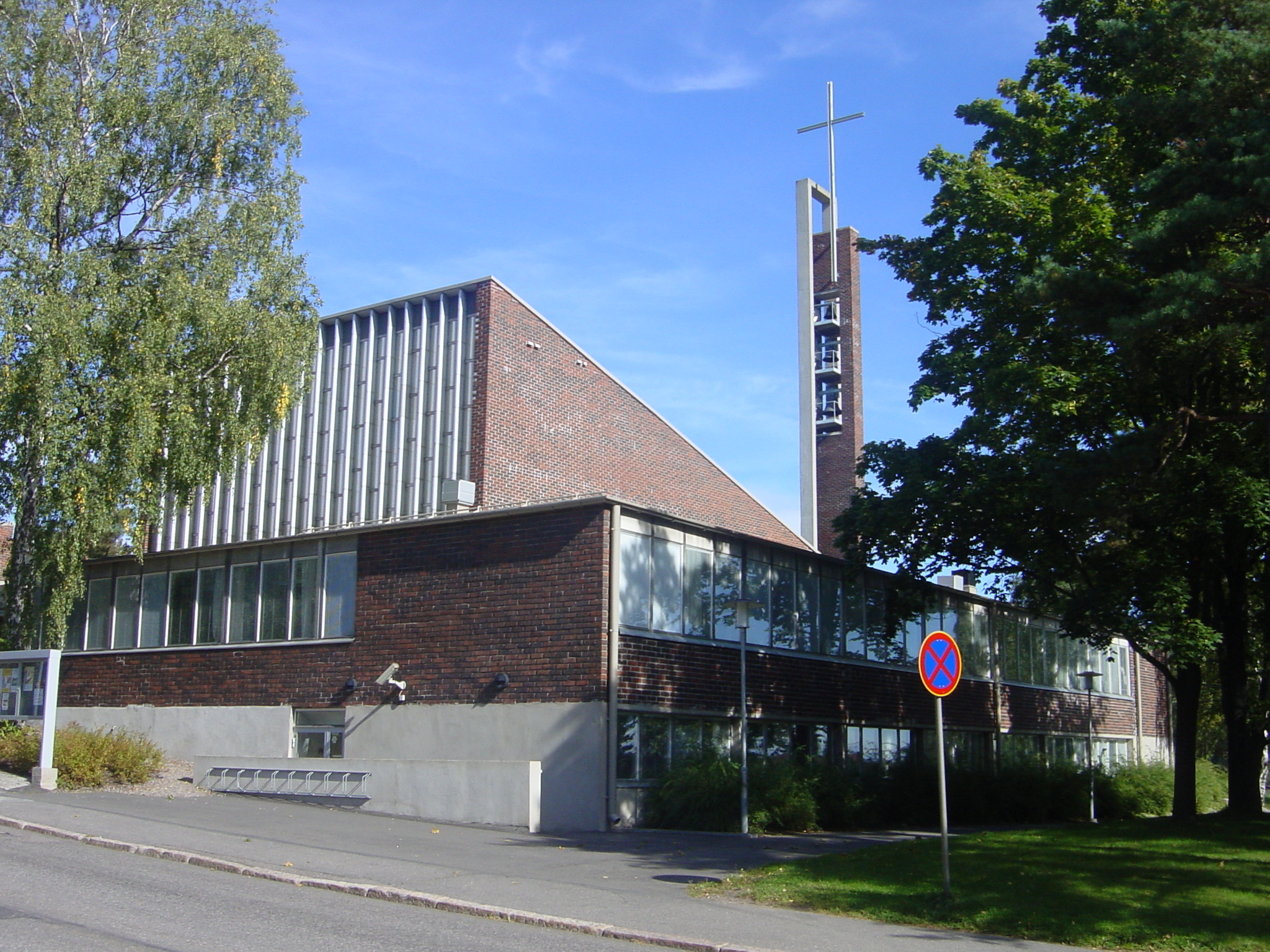 Herttoniemi Church, Helsinki, Finland